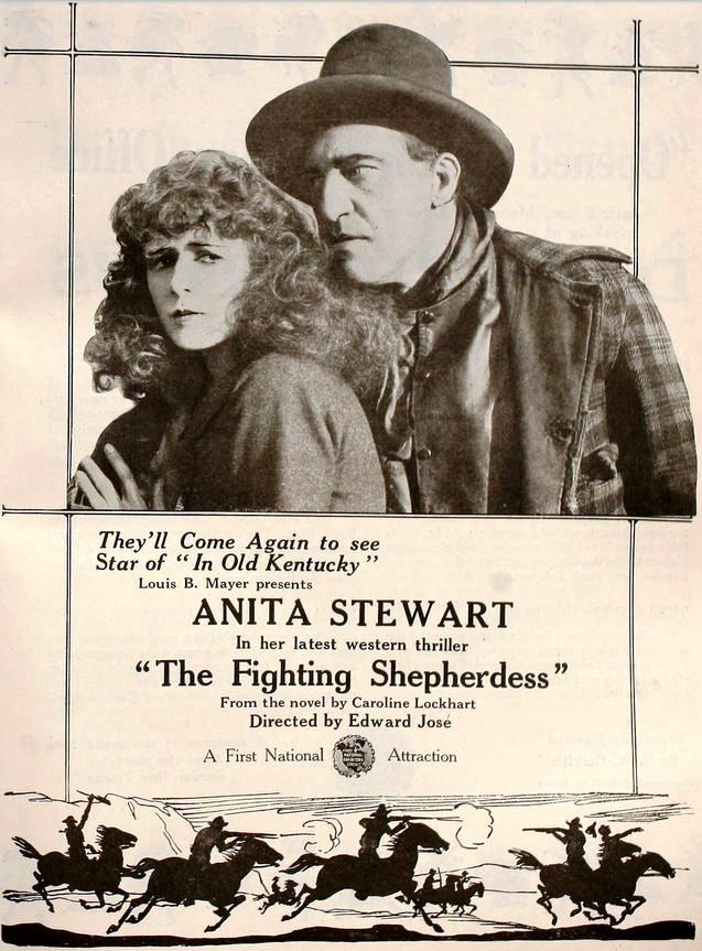 Advertisement for the American western romance film The Fighting Shepherdess (1920) with Anita Stewart, on page 3033 of the April 3, 1920 Motion Picture News.